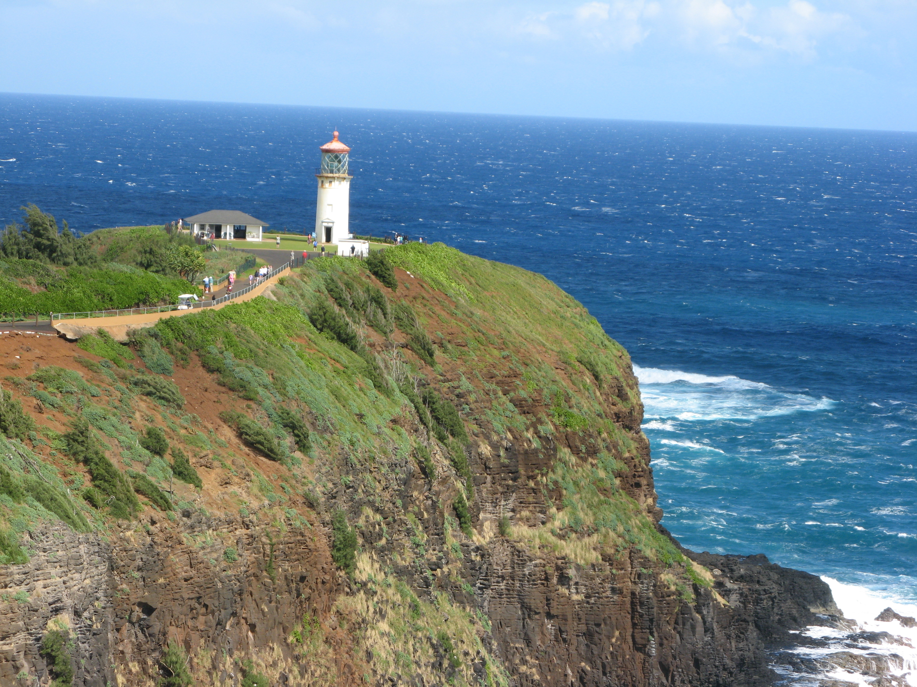 Kilauea Point Light Station